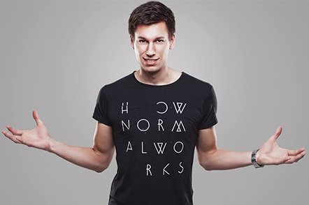 press shots